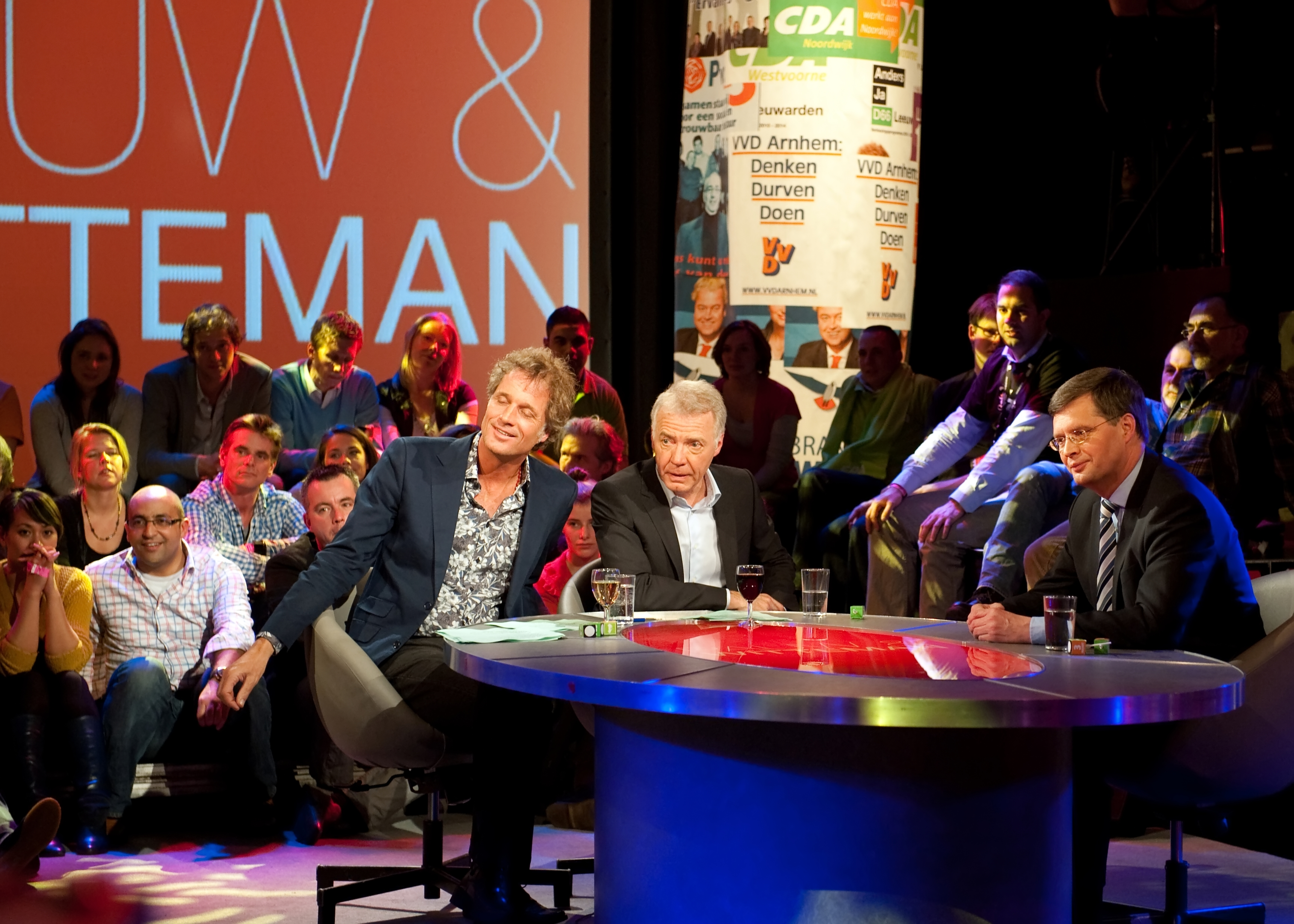 Dutch tv hosts Paul Witteman en Jeroen Pauw with dutch prime minister Jan-Peter Balkenende